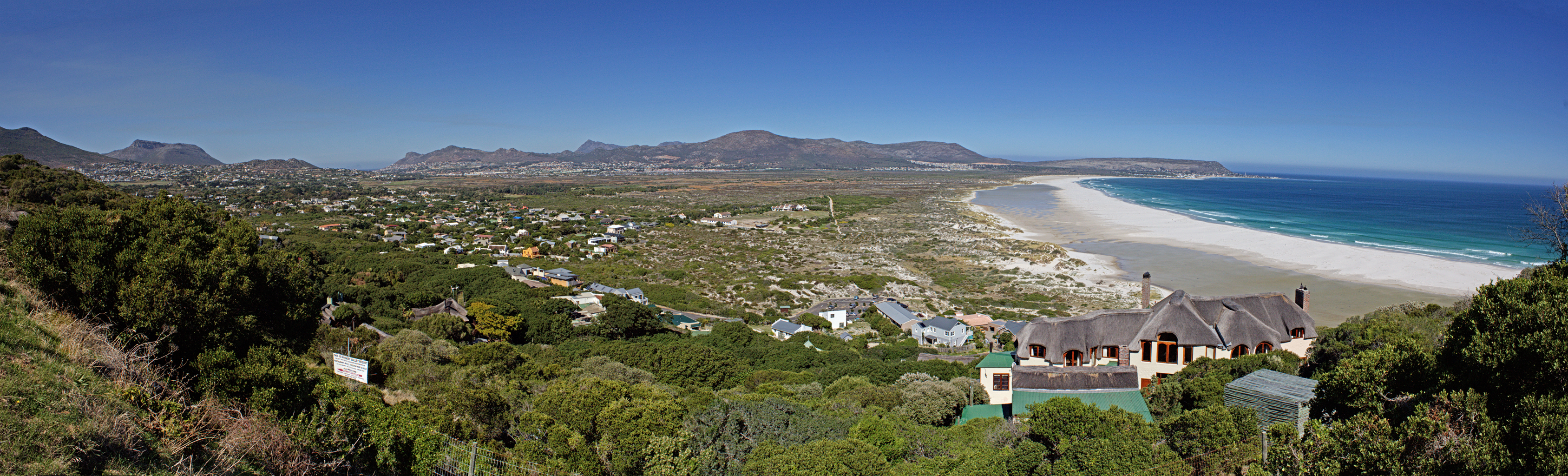 Noordhoek and Noordhoek Beach, view from Chapman's Drive